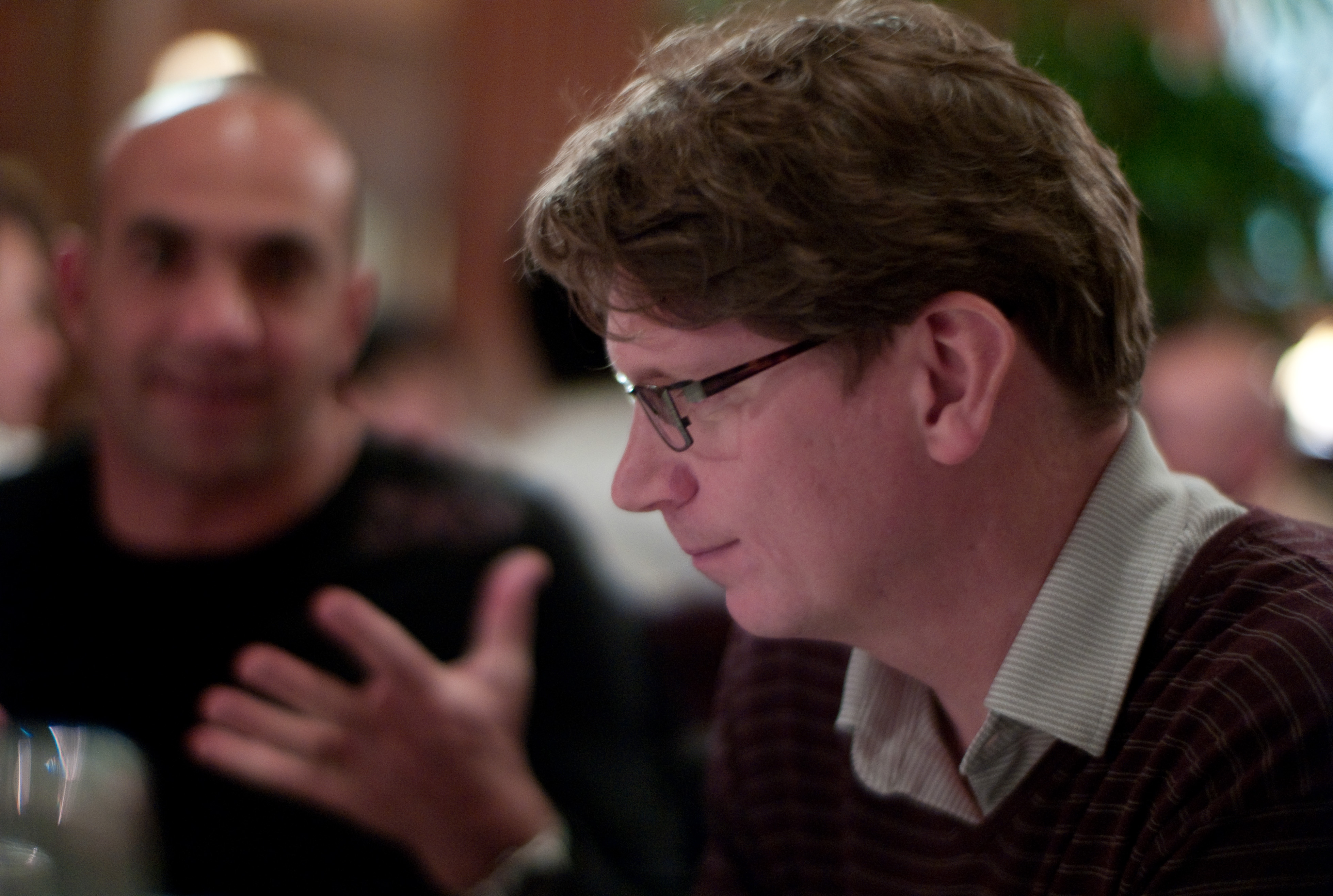 Niklas Zennström with Loic Le Meur emoting in the background